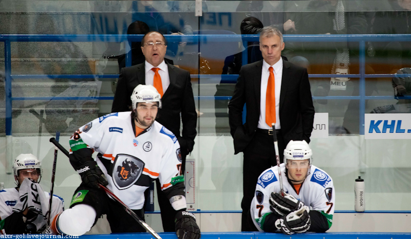 KHL game Amur Khabarovsk vs. Lev Poprad on January 10, 2012. HC Lev players Alexander Hellström (at right), Vladimír Mihálik, in the back assistant coaches Róbert Pukalovič, Vladimir Kapulovsky